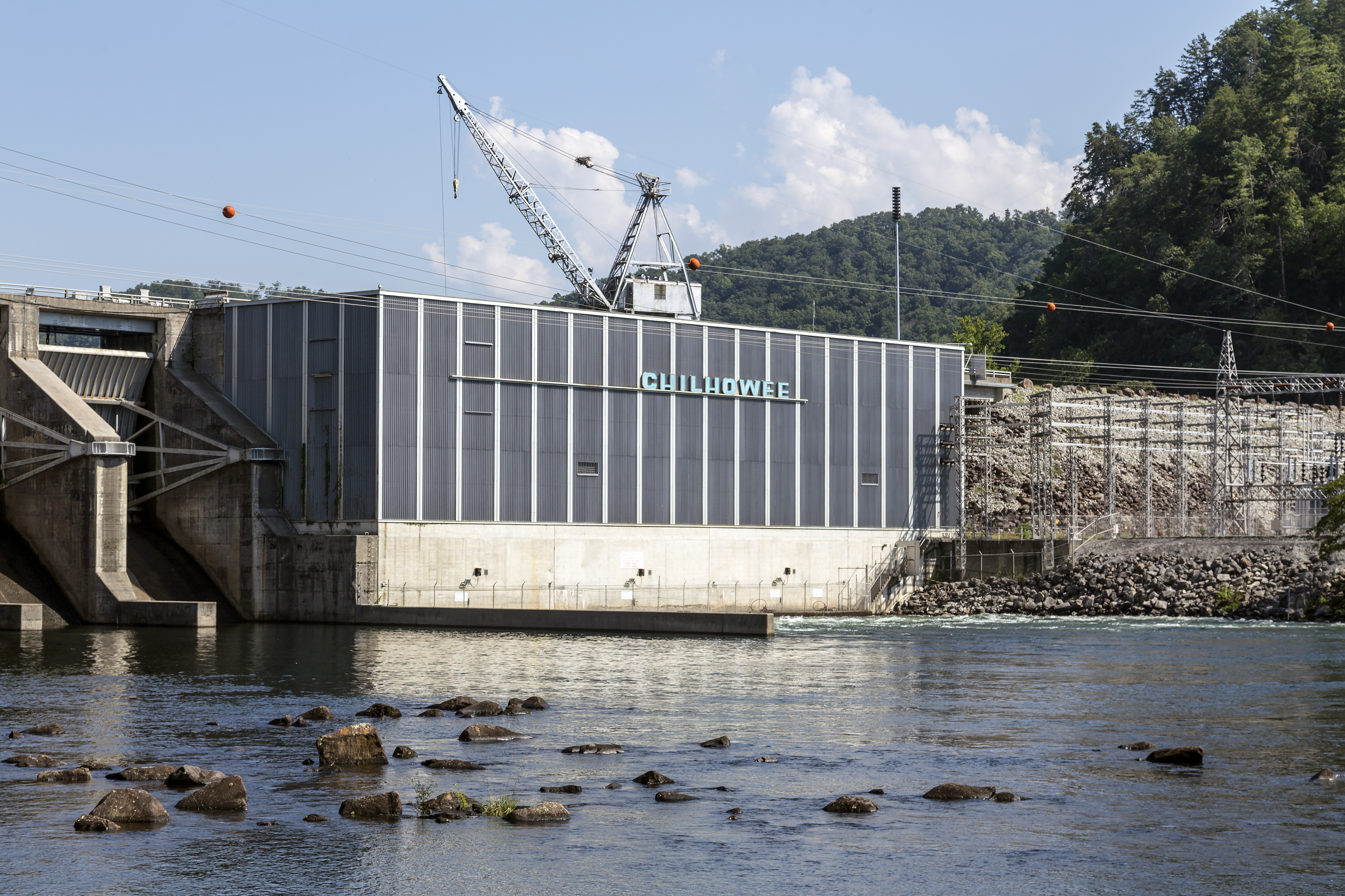 Chilhowee Dam powerhouse, Little Tennessee River, North Carolina, USA